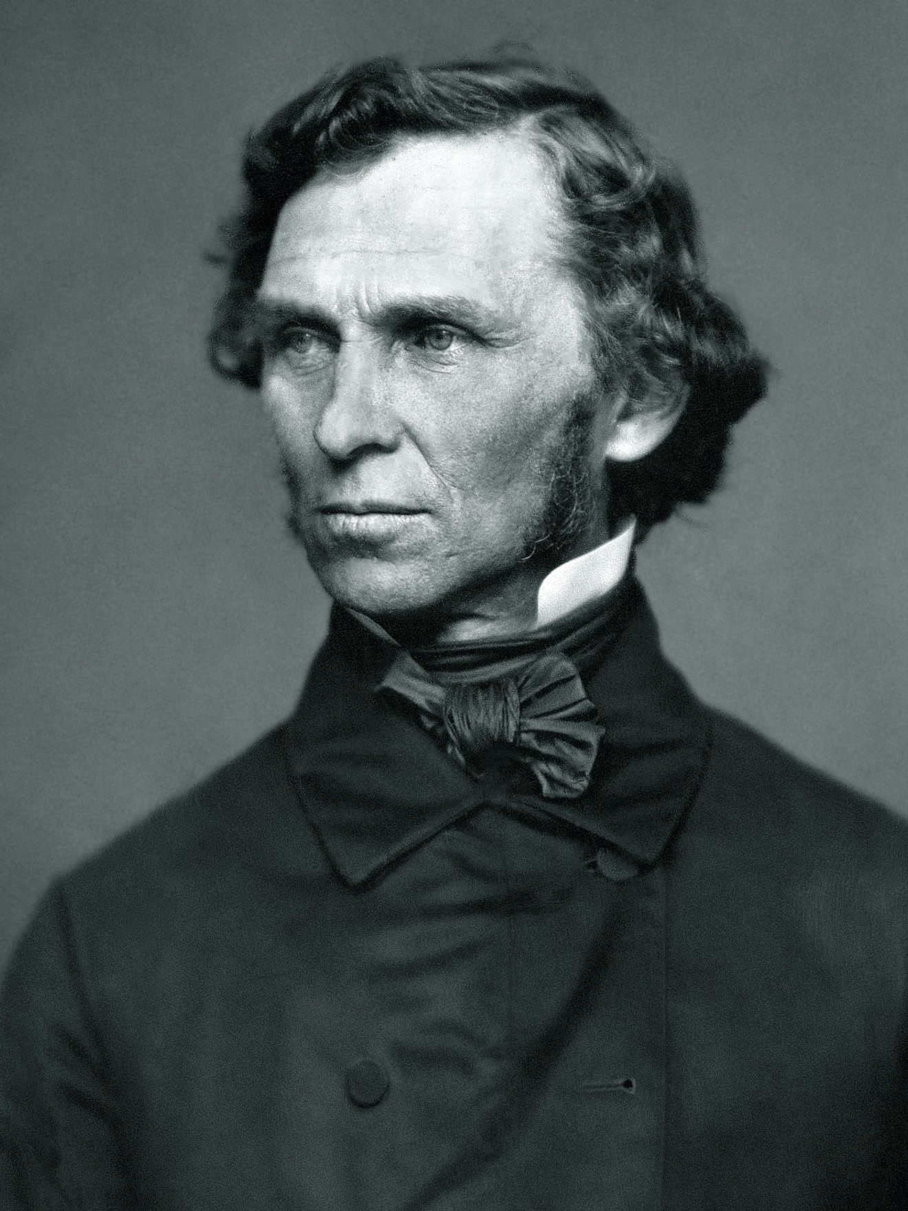 Neal Dow